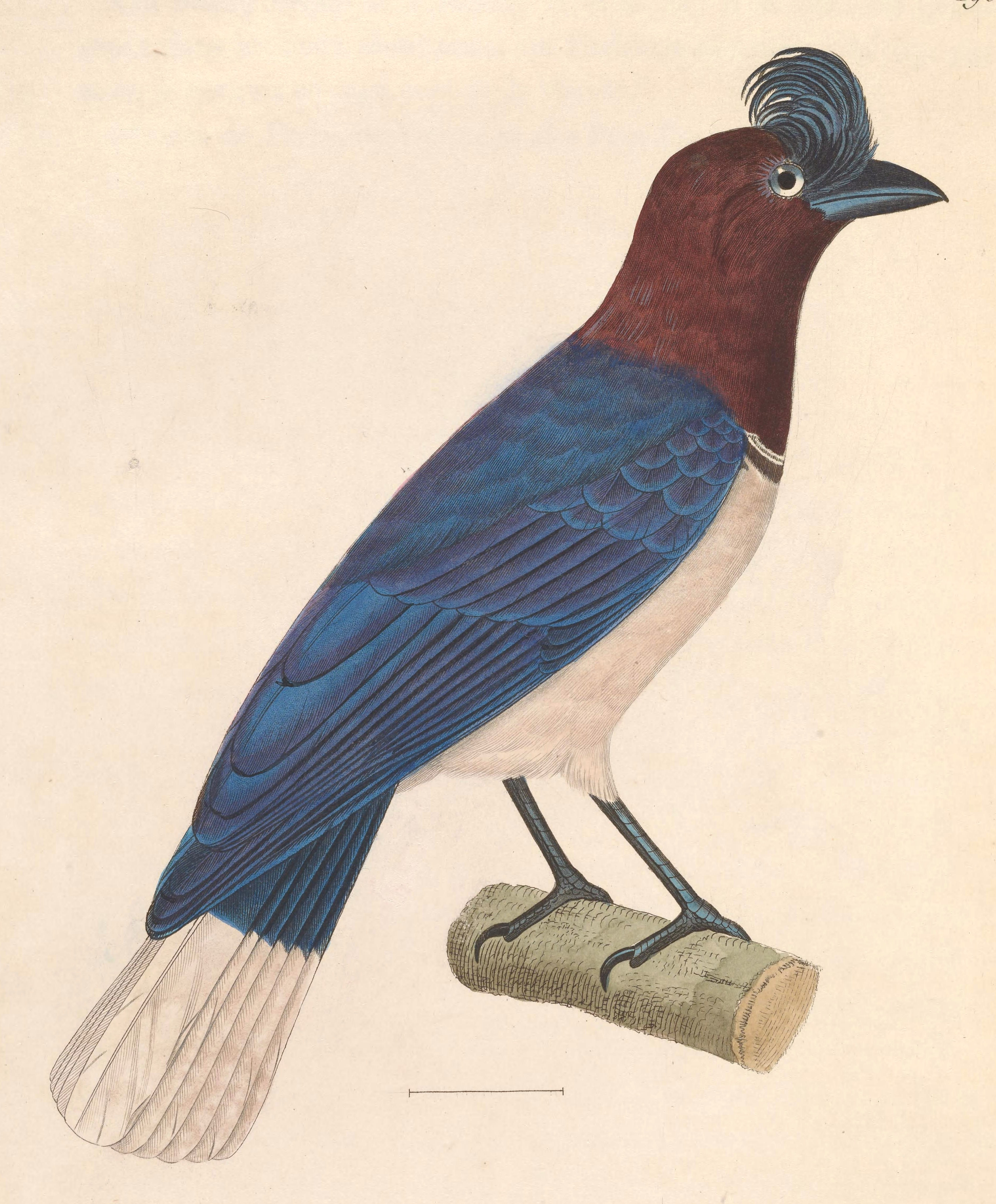 « Corvus cristatellus » = Cyanocorax cristatellus (Curl-crested Jay)